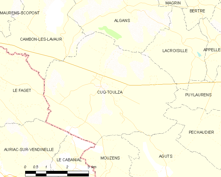 Map of French municipality Cuq-Toulza